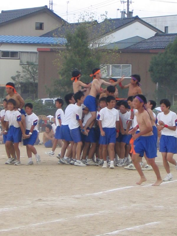 Field day at Demachi Jr. High, Tonami City, Toyama, JAPAN 富山県砺波市立出町中学校. Students participate in Kibasen(騎馬戦)